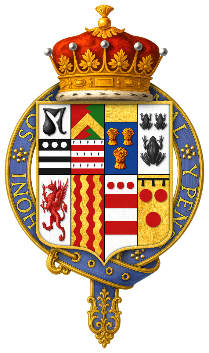 Coat of arms of Sir Francis Hastings, 2nd Earl of Huntingdon, KG